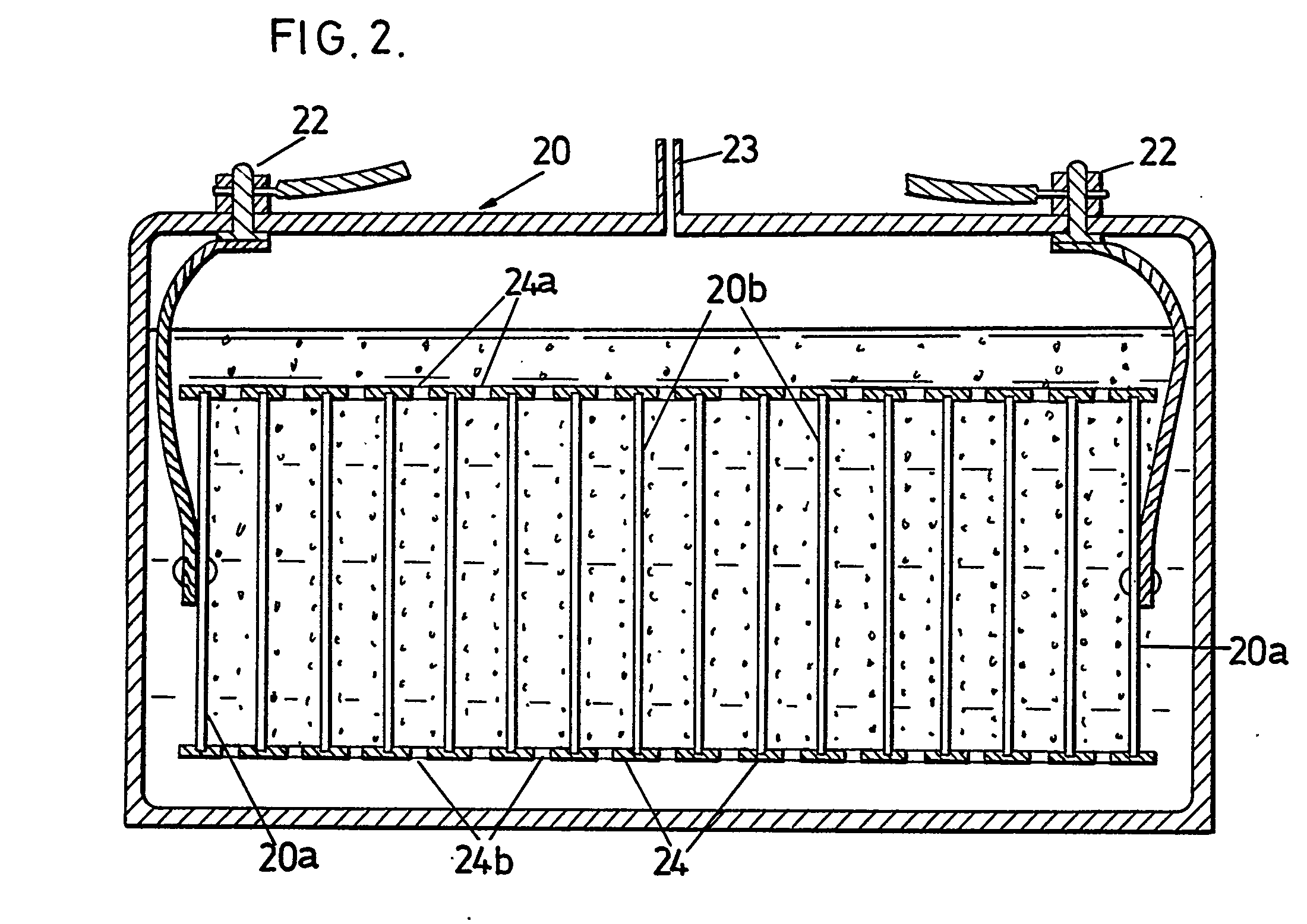 Electrolyzer with cells in series